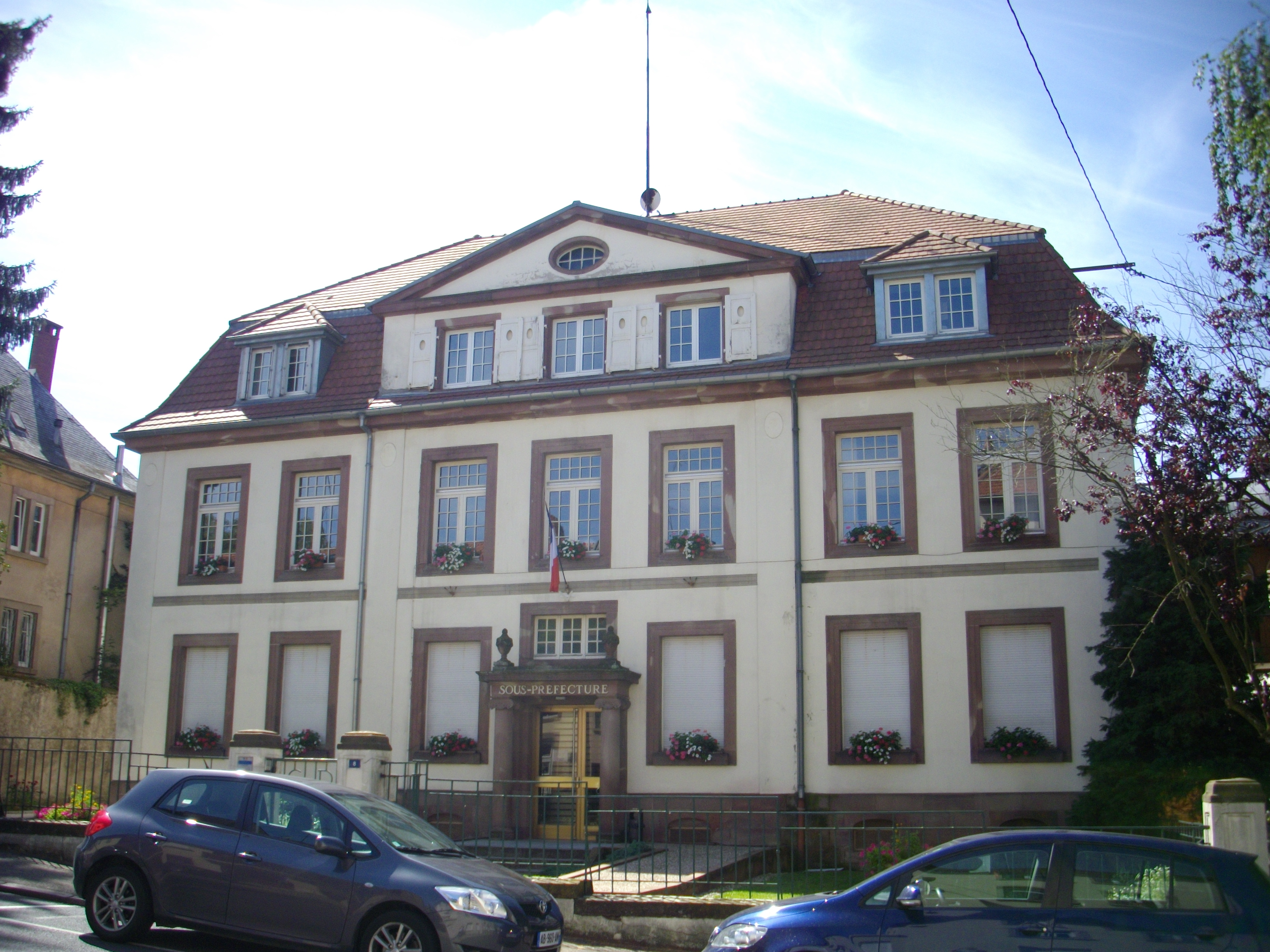 Subprefecture of Sarrebourg (Moselle, France)